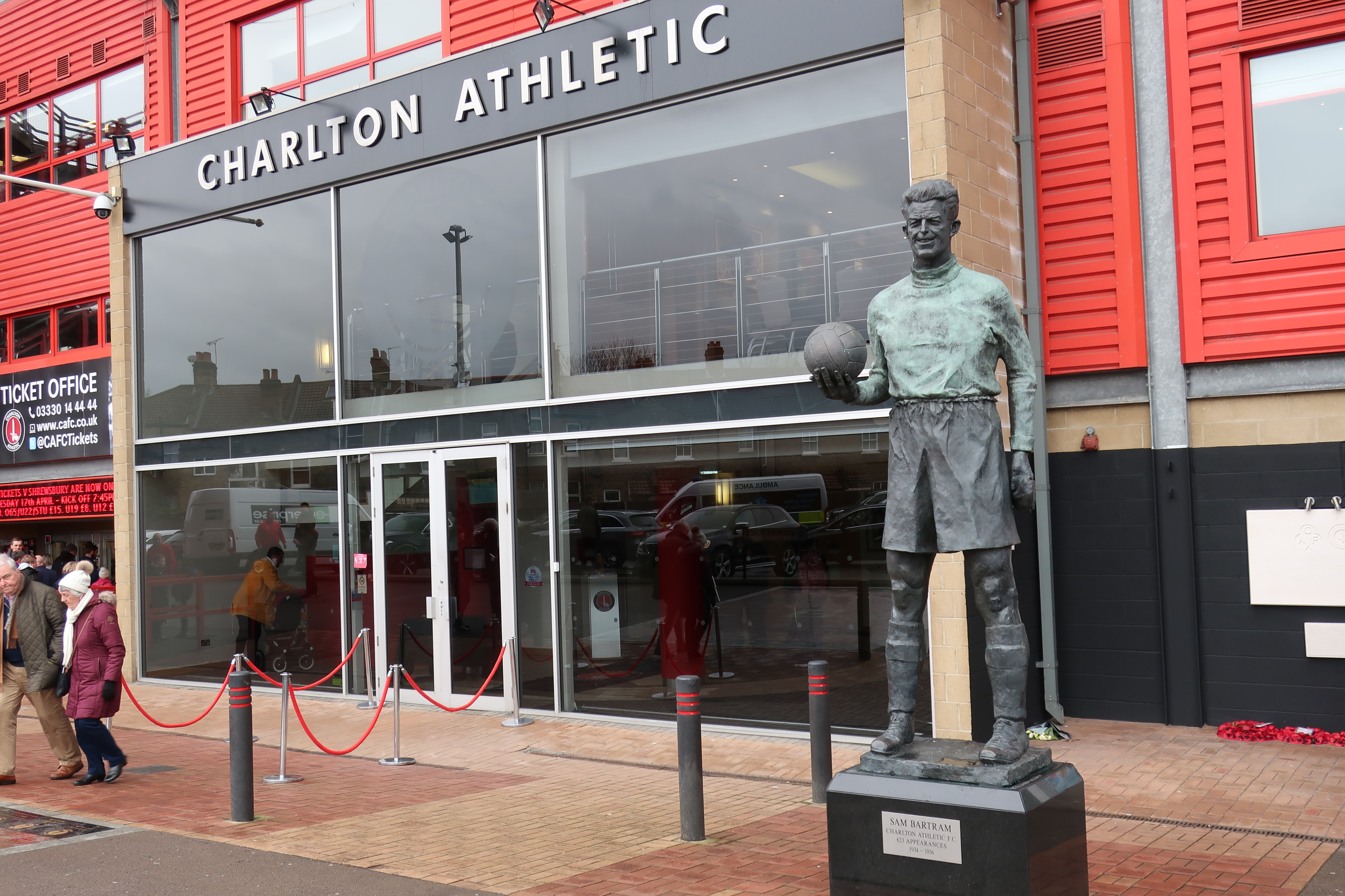 The statue of Sam Bartram outside The Valley.